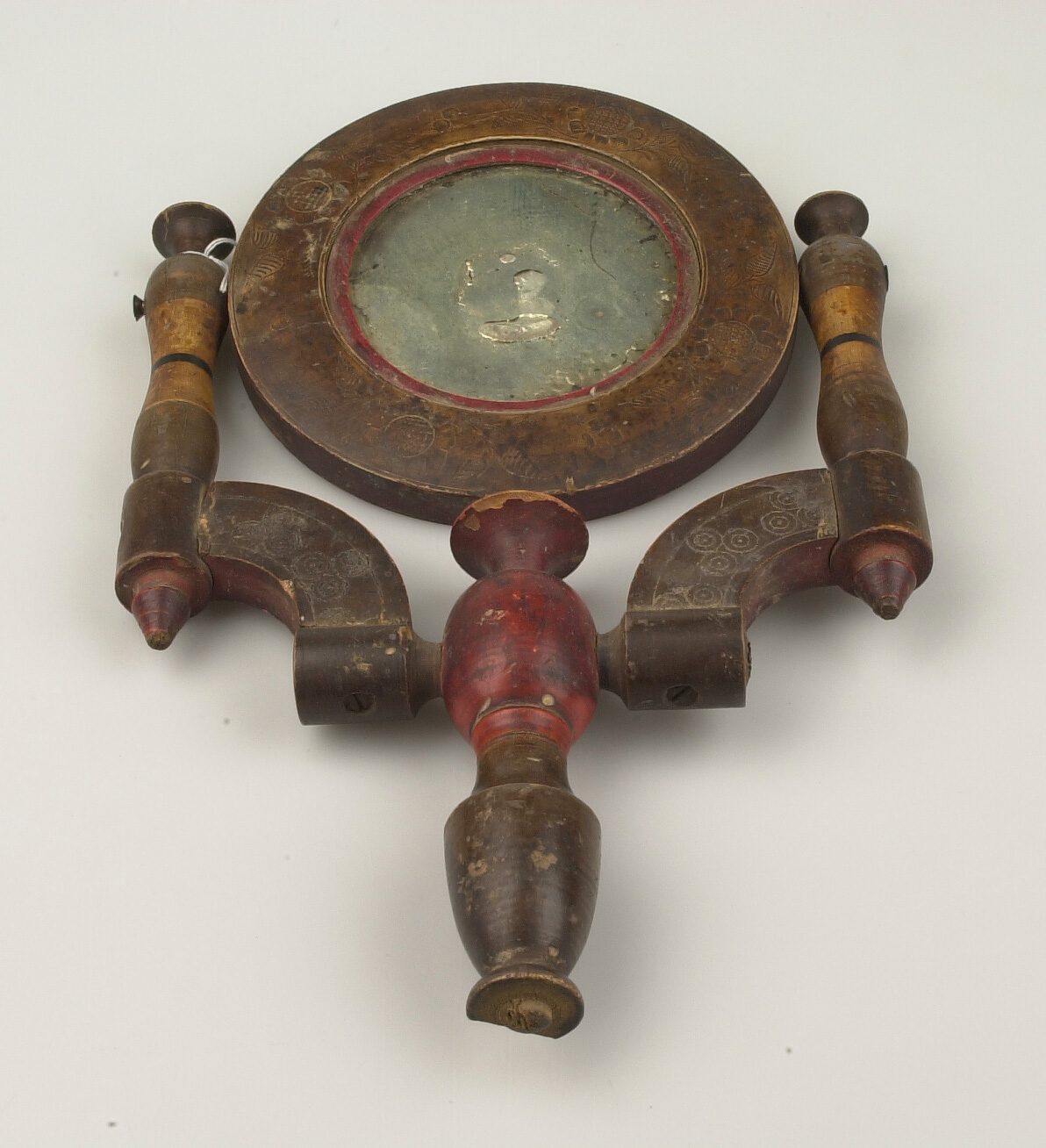 Collected by Josephine Powell.